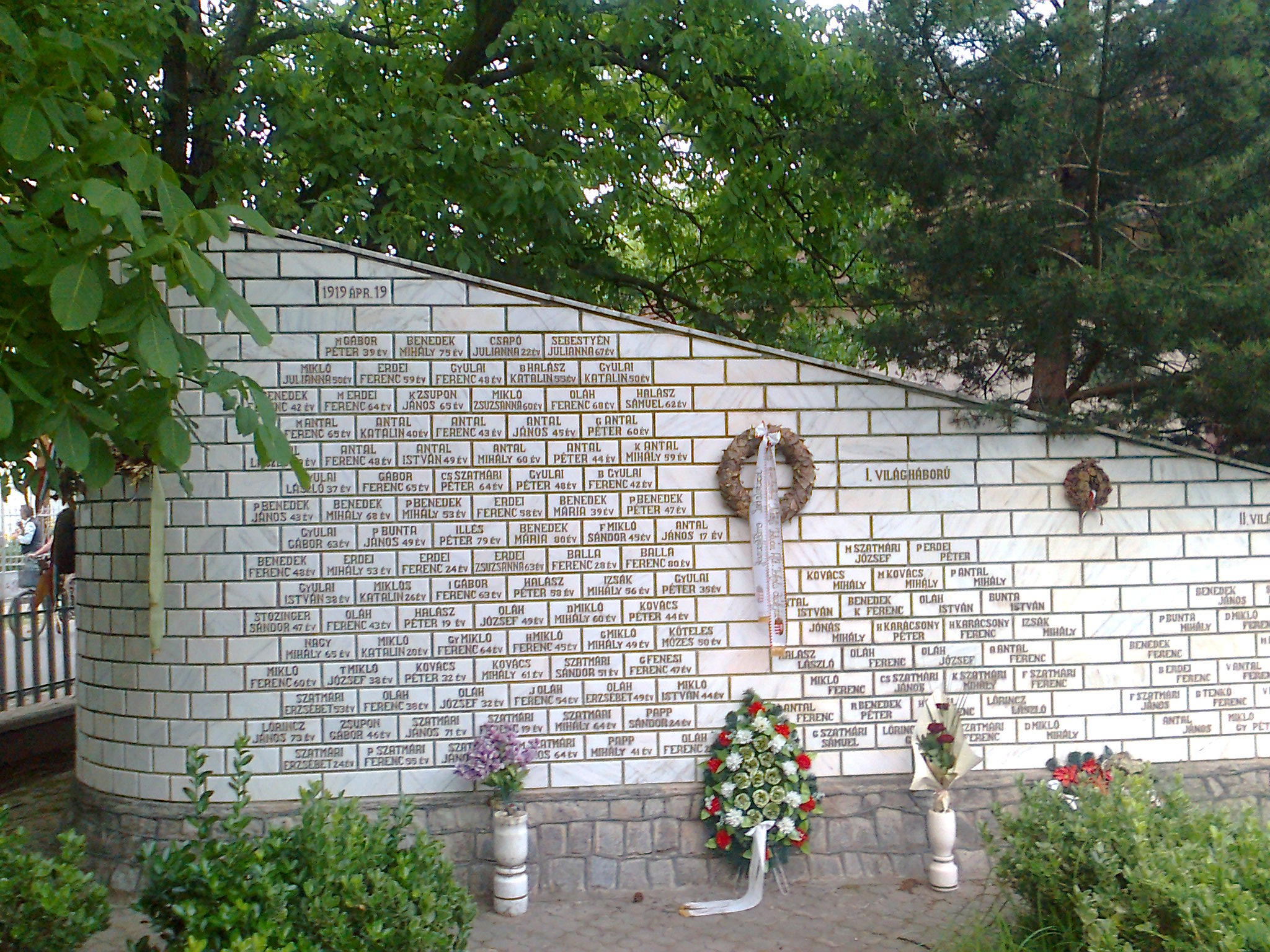 Memorial in Köröstárkány (Tarcaia, Romania) of killed Hungarians in 1919 by Romanian paramilitaries and of died people in world wars